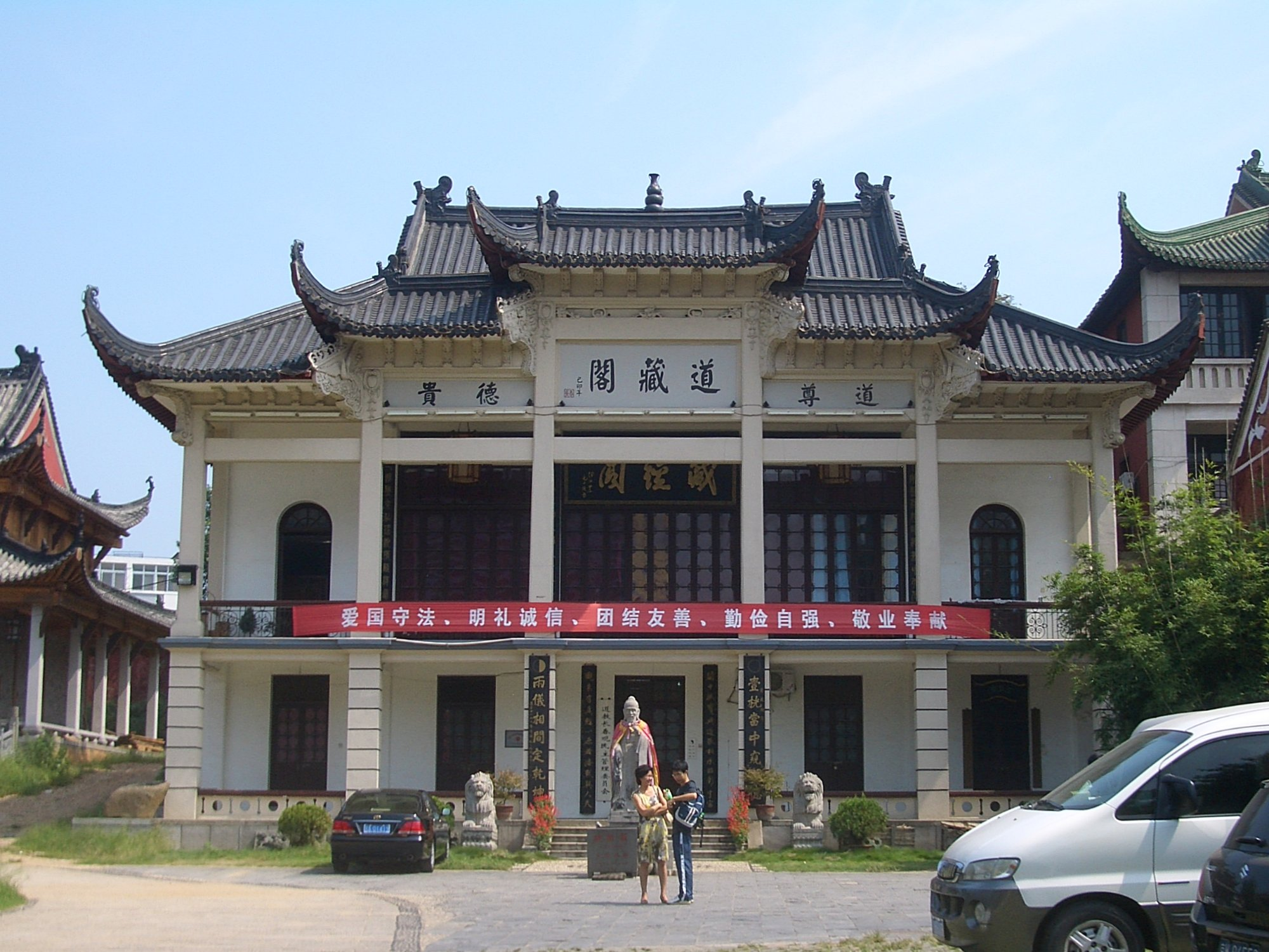 A building on the premises of the Changchun Temple (Wuhan)